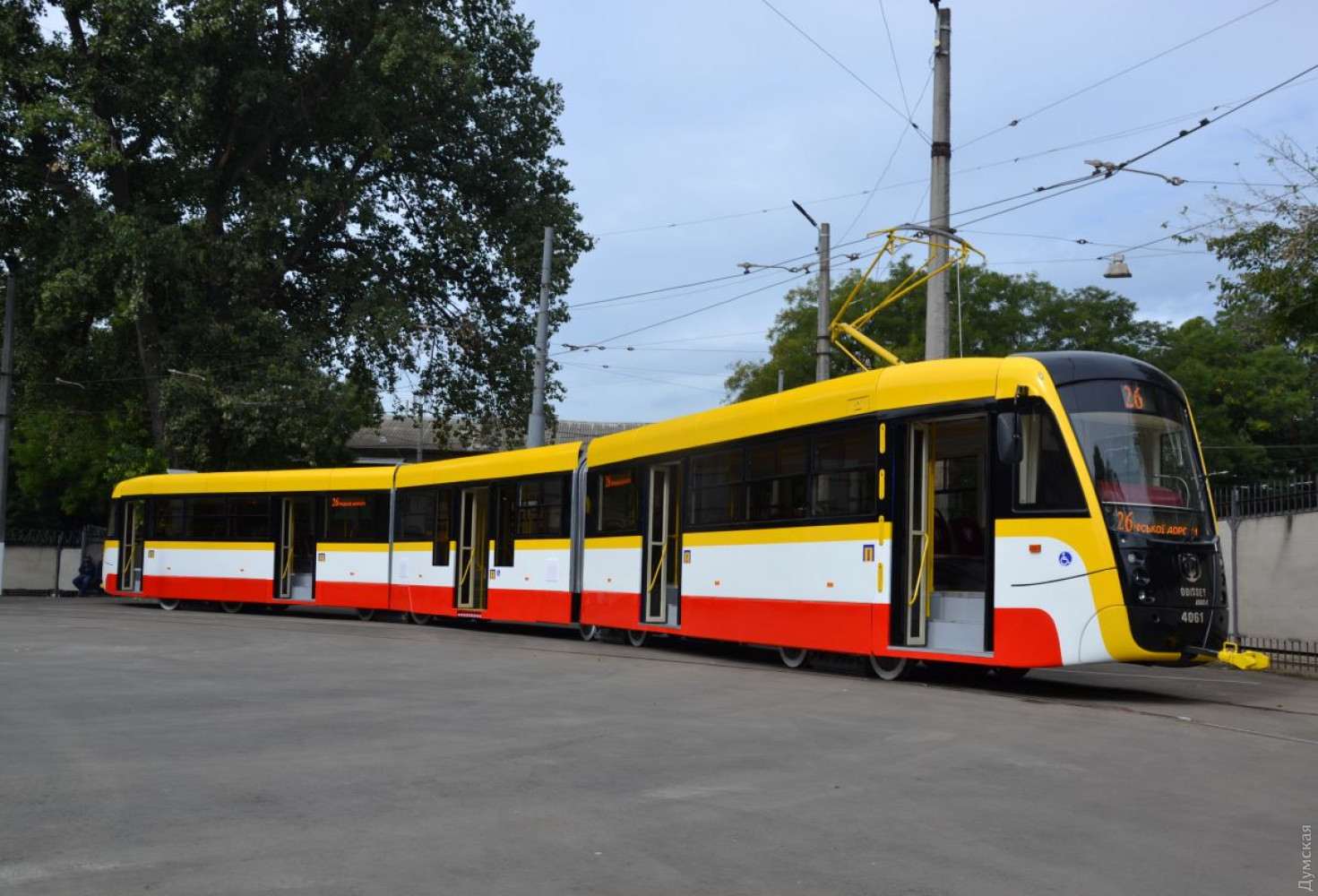 New long tram Odyssey max